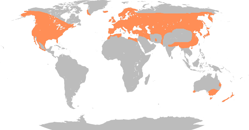 Created from Image:World map blank gmt.svg and [1]